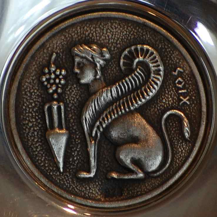 Photo, Modern reproduction of symbol used for Chian goods and coinage during pre-hellenic times.